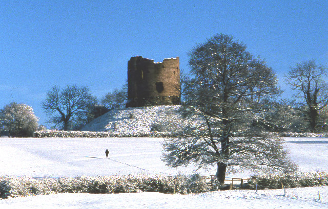 Longtown Castle, Herefordshire. Photograph taken by E R Purdye using Fuji slide film around 1978.